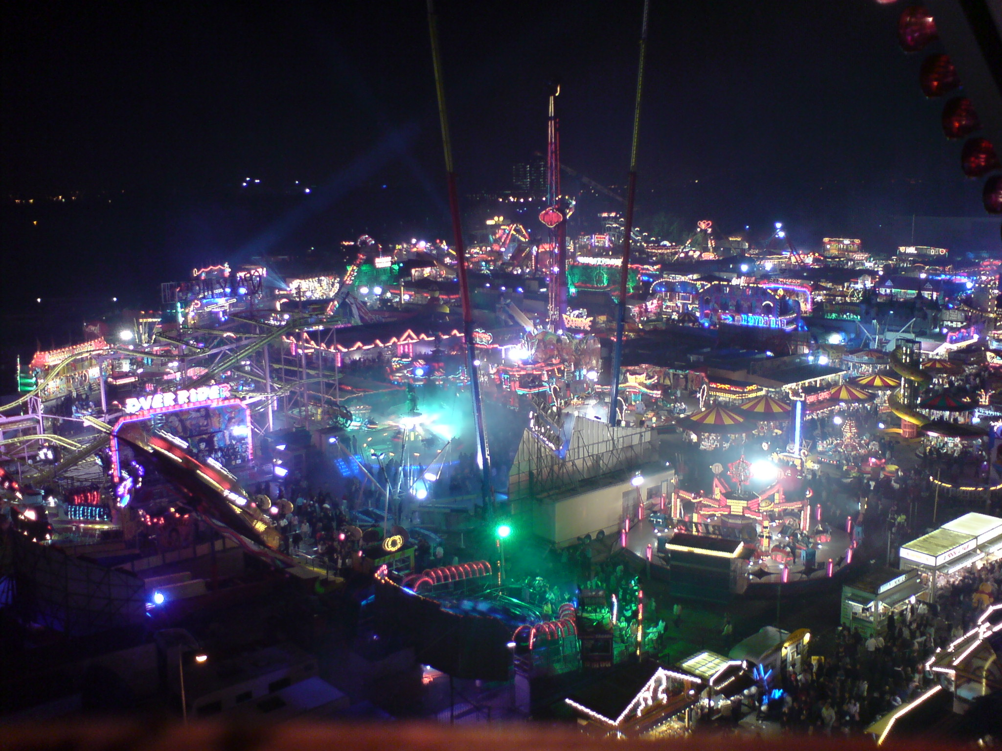 1-A photo of Hull Fair, Hull, East Riding of Yorkshire, England. Taken on Friday 13th October 2006 from the top of the 'Big Wheel'. - Reginald Herring.